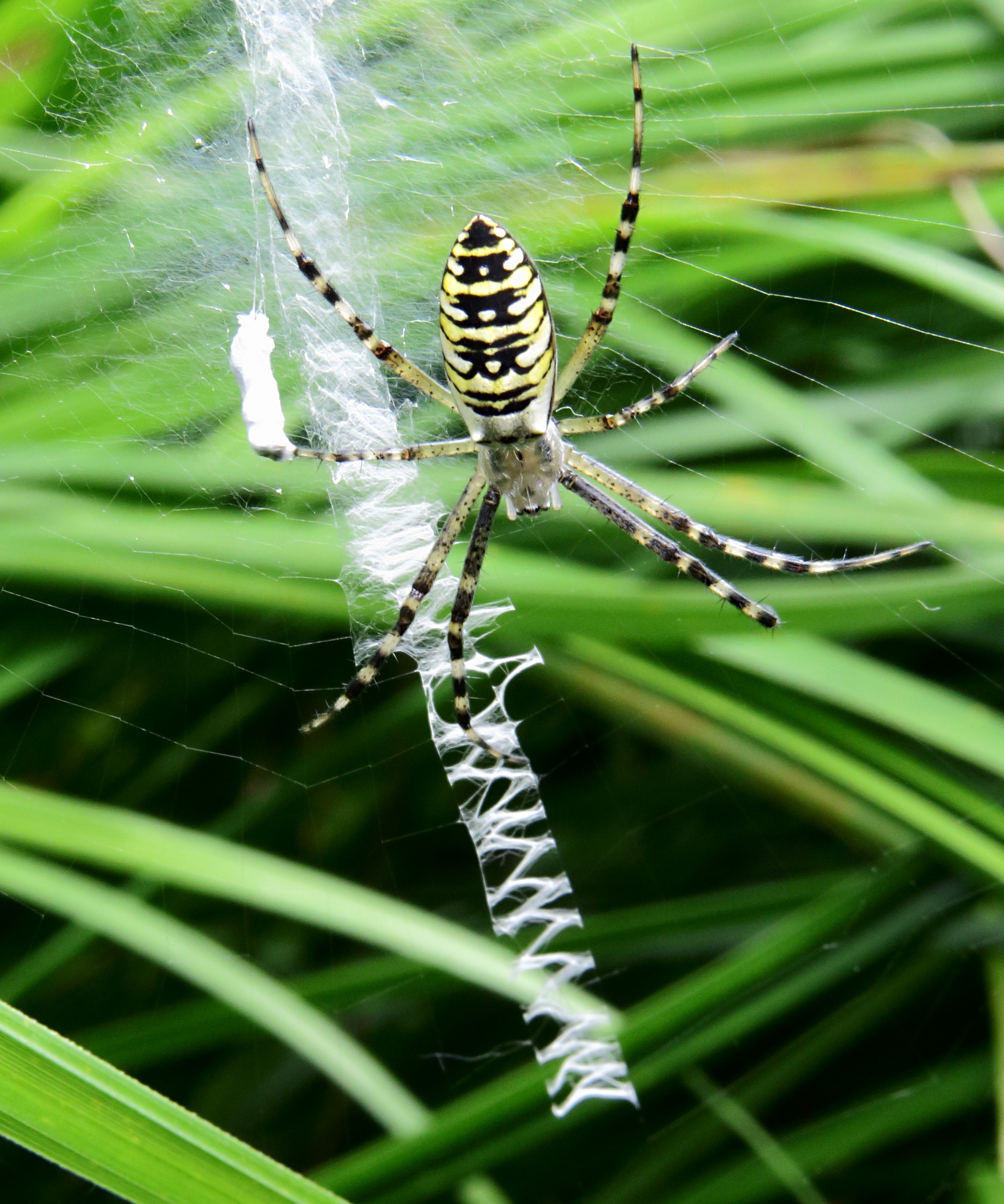 Argiope bruennichi. Svyatoshyn ponds, Kiev, Ukraine